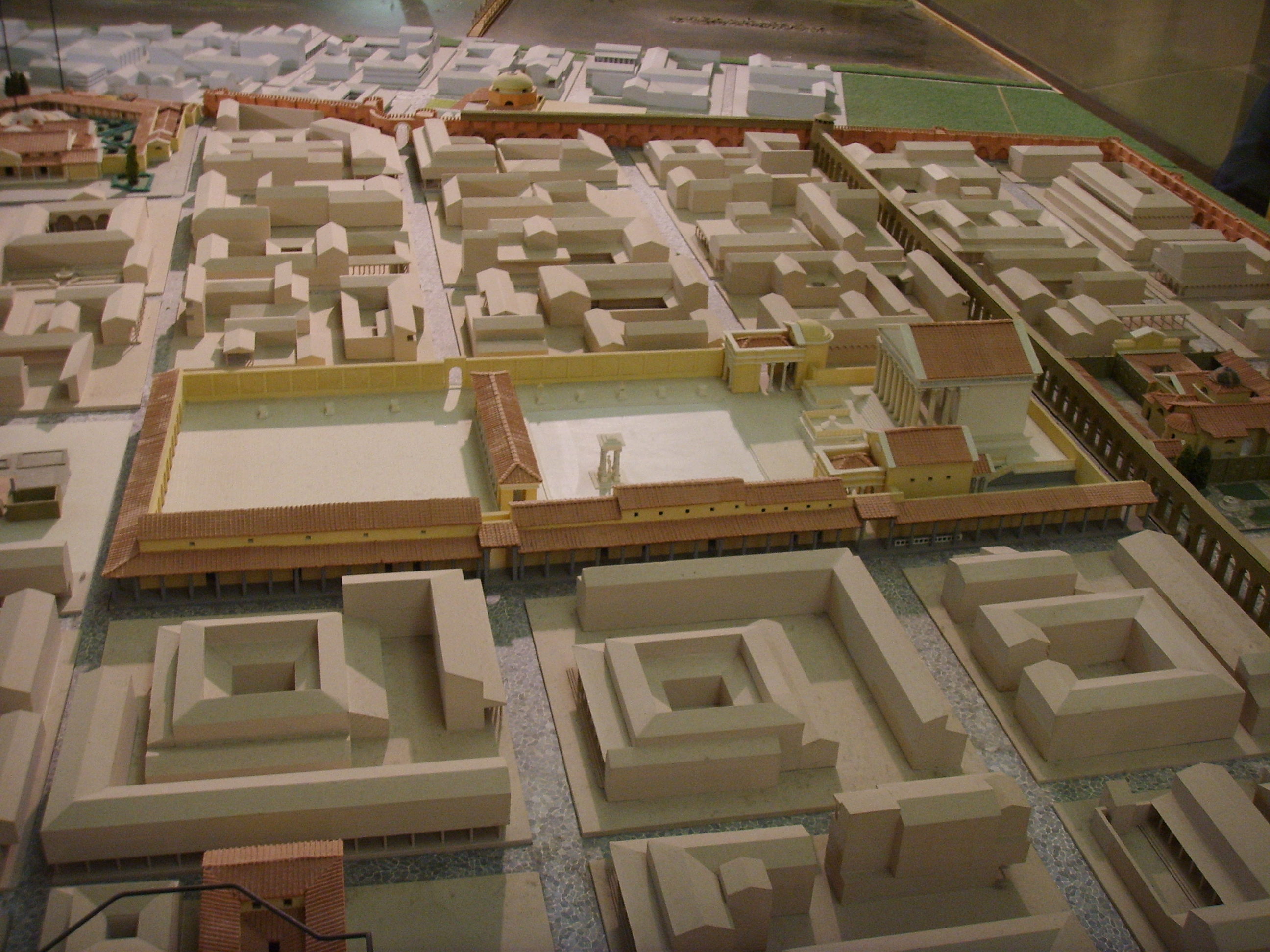 Museo Firenze com'era, archaeological room, florentia's reconstruction in Florence, italy